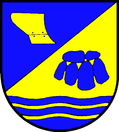 Coat of arms of the former municipality Sankelmark in Schleswig-Holstein, Germany.